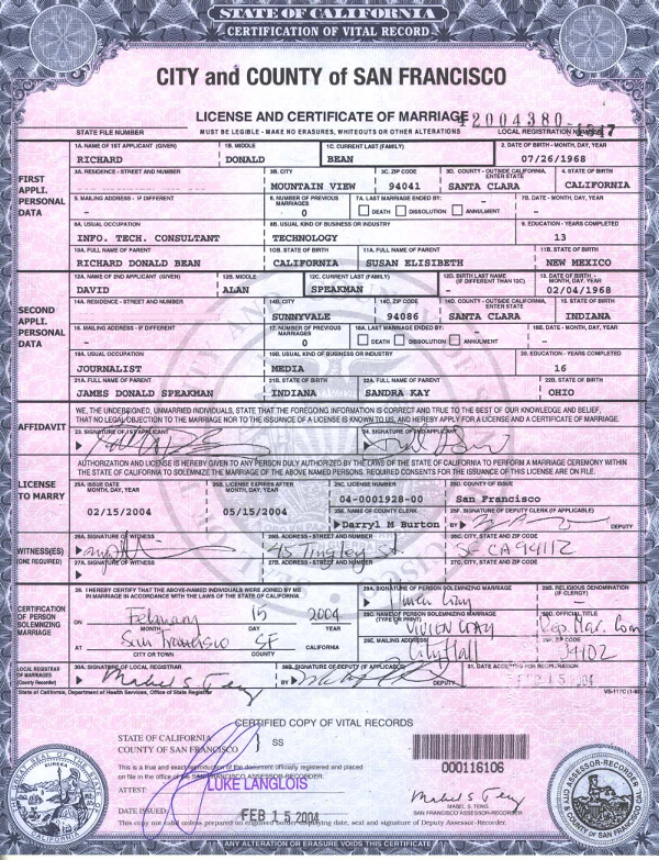 to replace ipg version This is a public document issued by the City of San Francisco (not the state of California) - invalidated by the state of California and as a voided publicly filed document. Source: Scan of User:Davodd's marriage license Rationale: This illustrates an historic event that happened in 2004, no "free" or inarguable "public domain" equivalent is available.